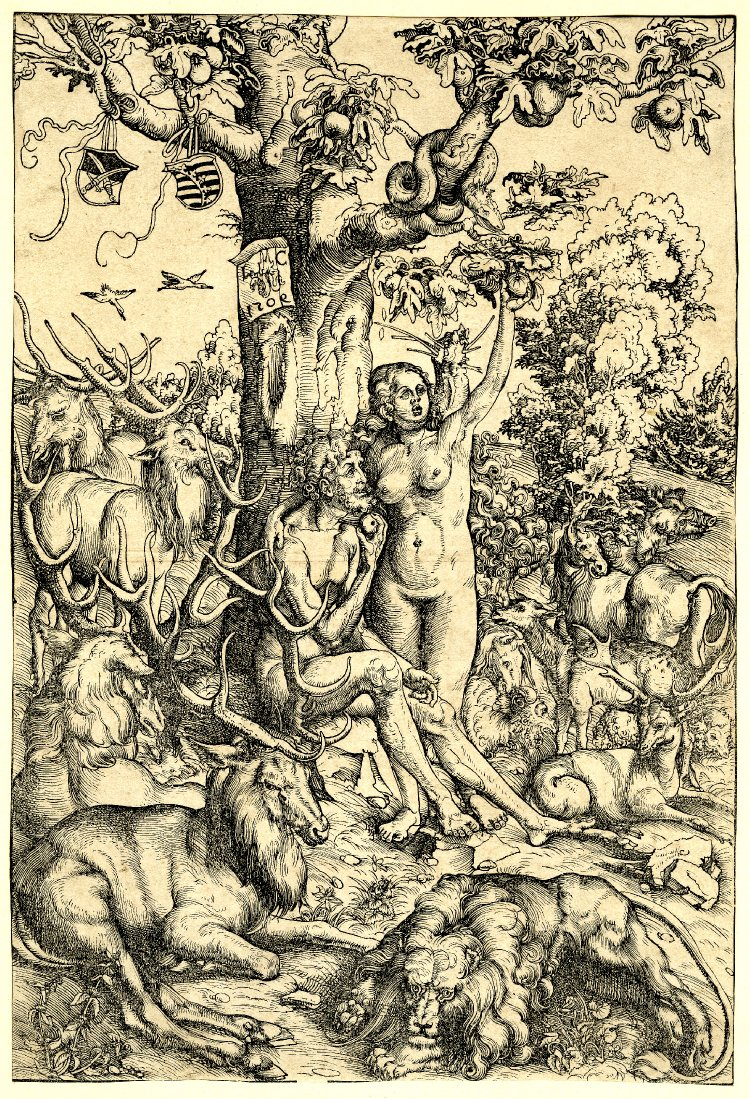 "the Fall," in which the couple is situated under the Tree, holding apples.Courtesy of the British Museum, London.